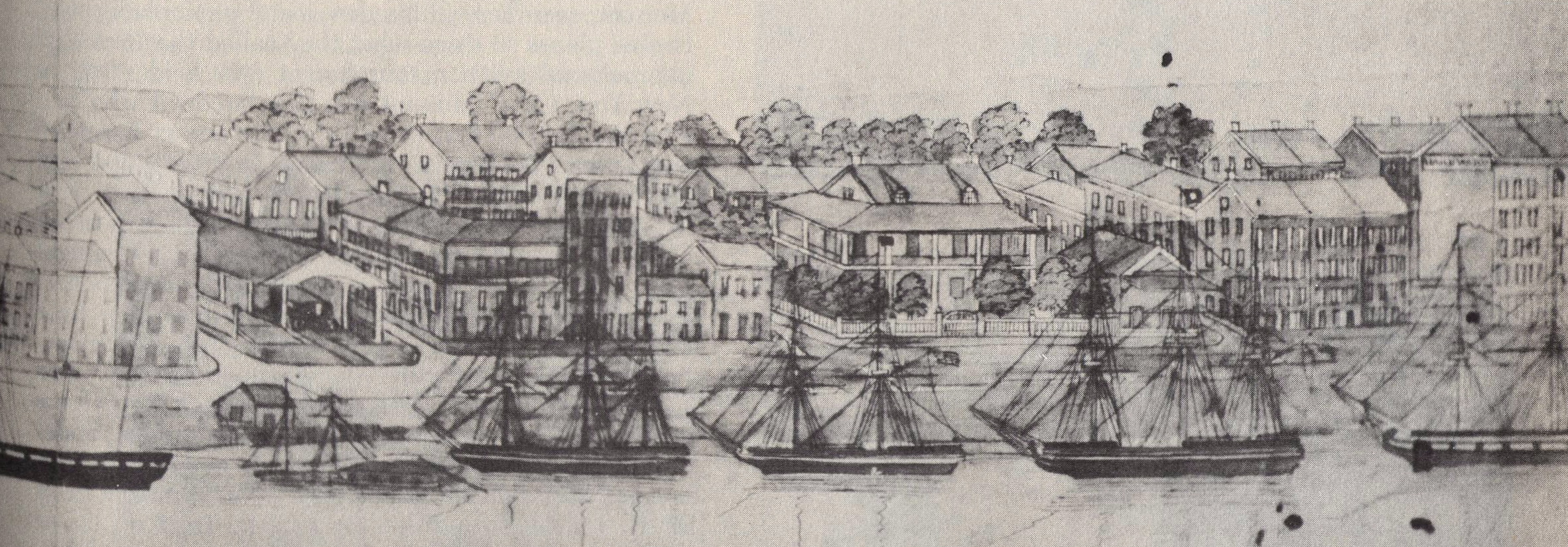 New Orleans, 1836. View along the Mississippi River front in the Faubourg Marigny section. Sailing ships along the riverfront. At left is the station for the Pontchartrain Rail-Road at the foot of Elysian Fields Avenue.